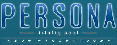 Logo used for Atlus's Persona: Trinity Soul anime.